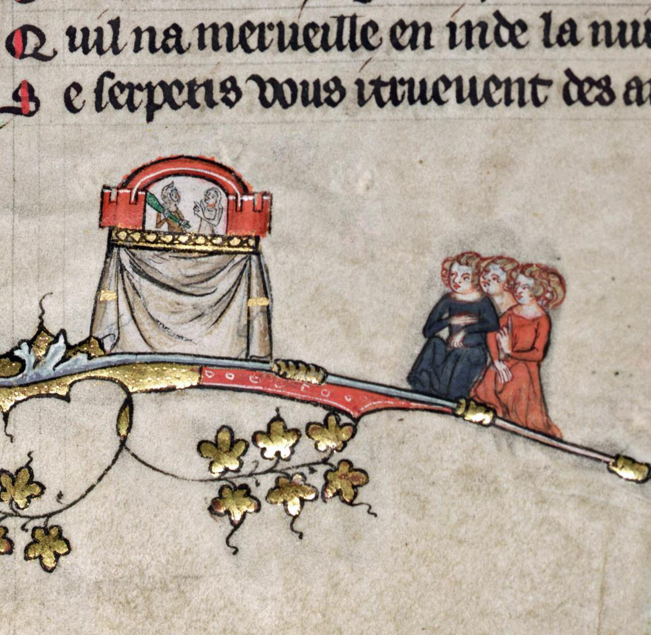 Illuminated border from the Romance of Alexander depicting a puppet show (Bod. Ms. 264, f.54 v)